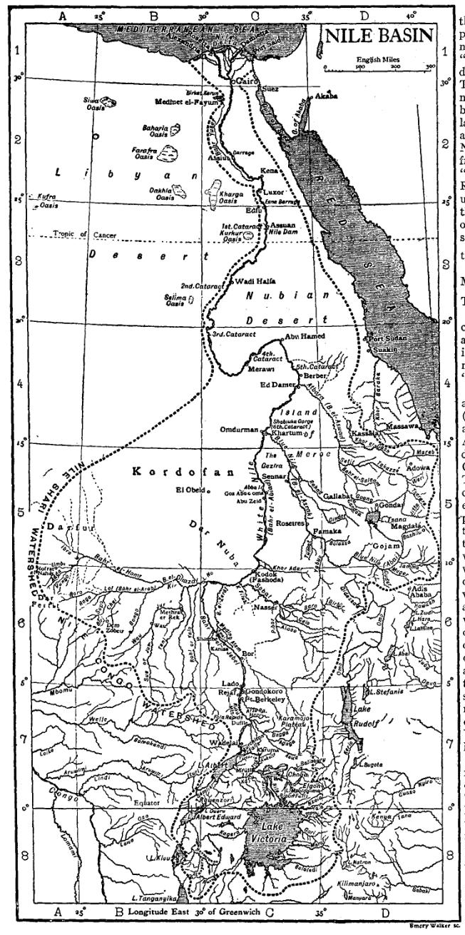 A map of the river basin of the Nile River c. 1911. (There is a bit in the top right that could be cropped out, if the image could be rotated a bit.)